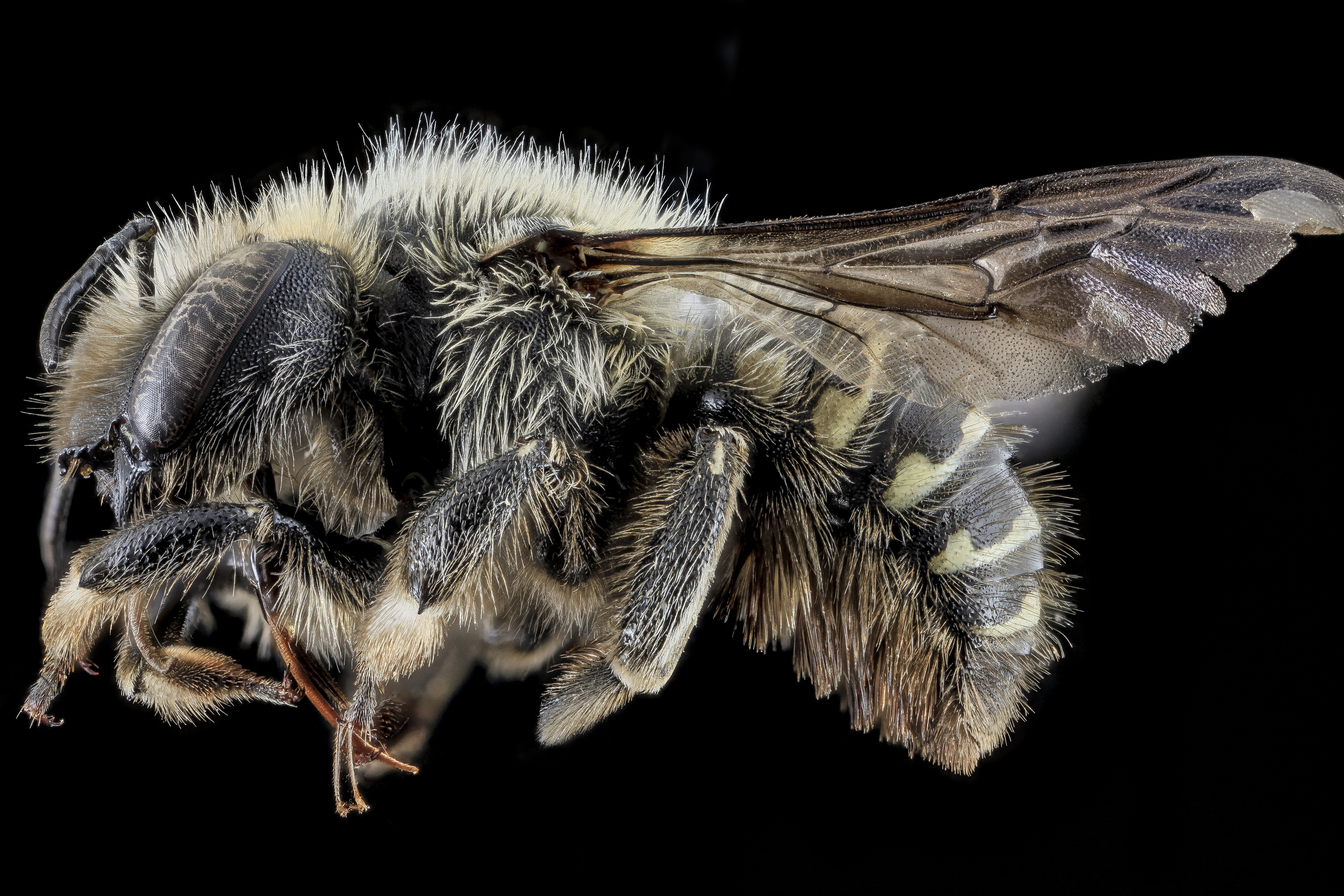 Anthidium tenuiflorae, female. An odd and rare record of an Anthidium that normally occurs far to west in the dry part of the northwestern Great Plains, in this case it showed up on Isle Royale National Park where other northern prairie species also reside.